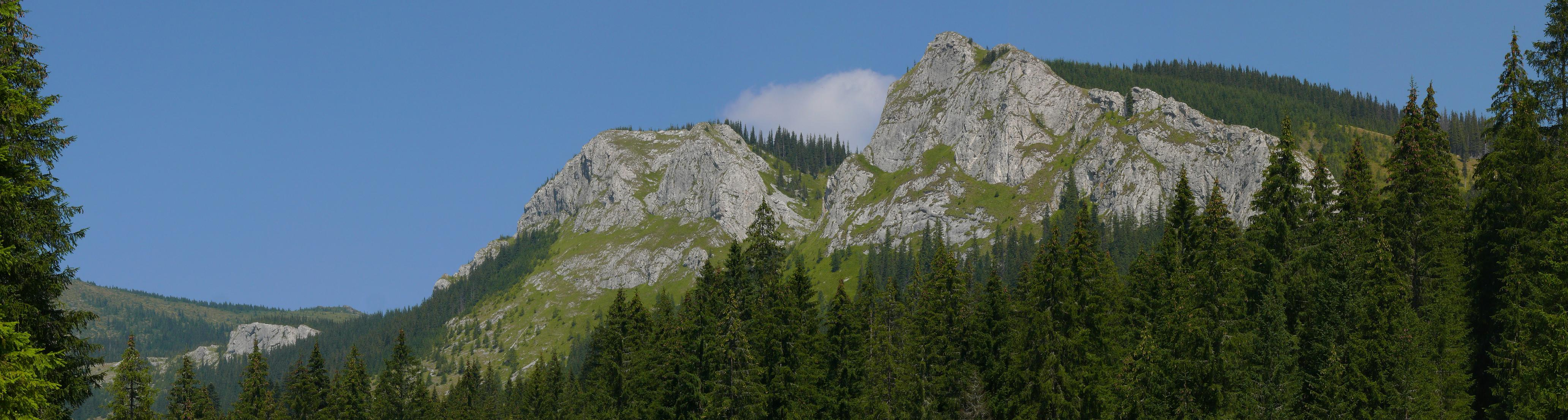 Panoramic view of White Stones (Pietrele Albe), Vlădeasa Mountains, Romania